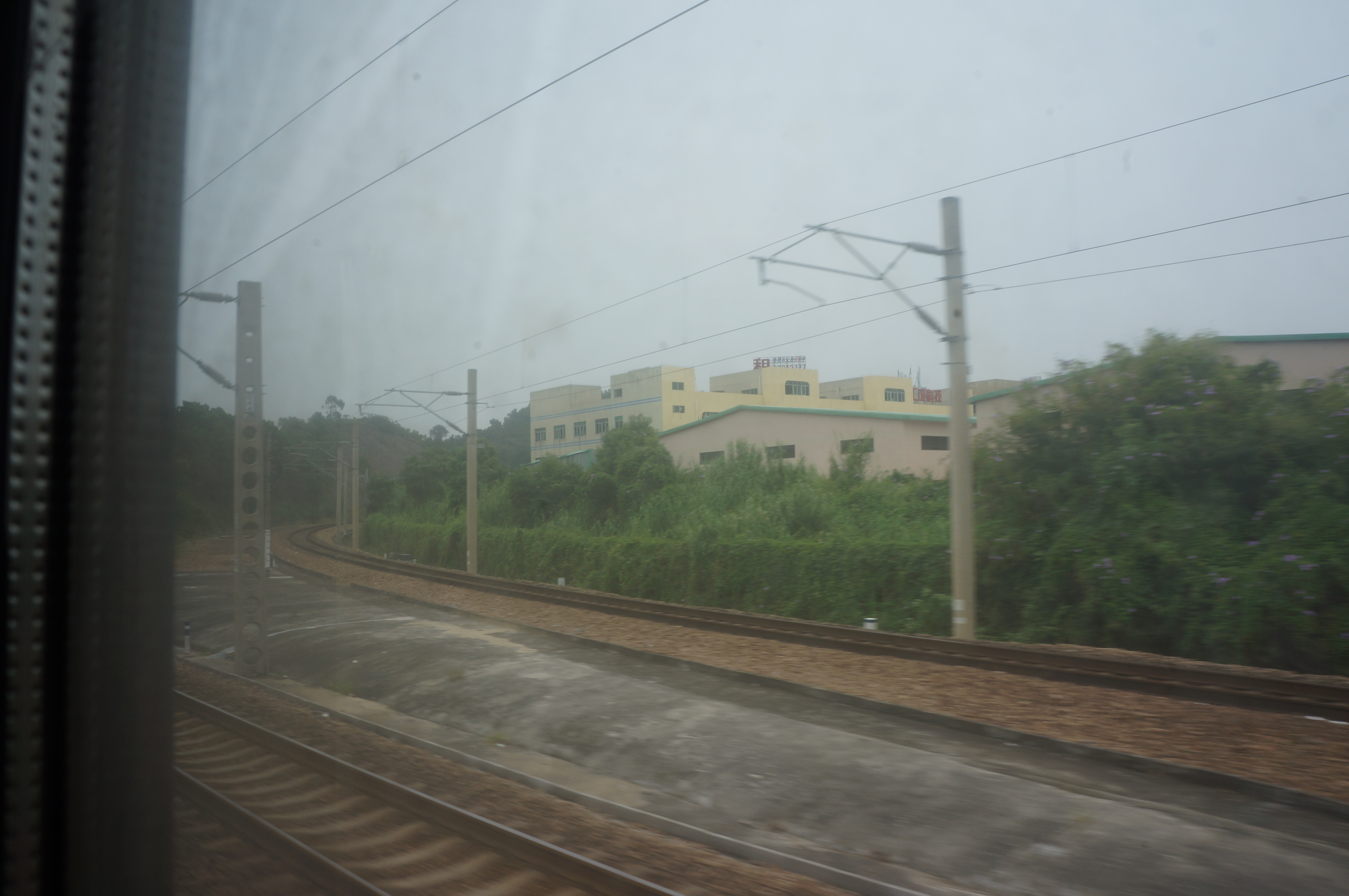 201609 Tracks of Beijing–Kowloon Railway for Hung Hom Direction in Tutang